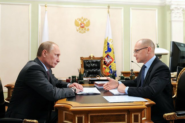 Working meeting of Vladimir Putin with the head of Rosatom Sergey Kiriyenko